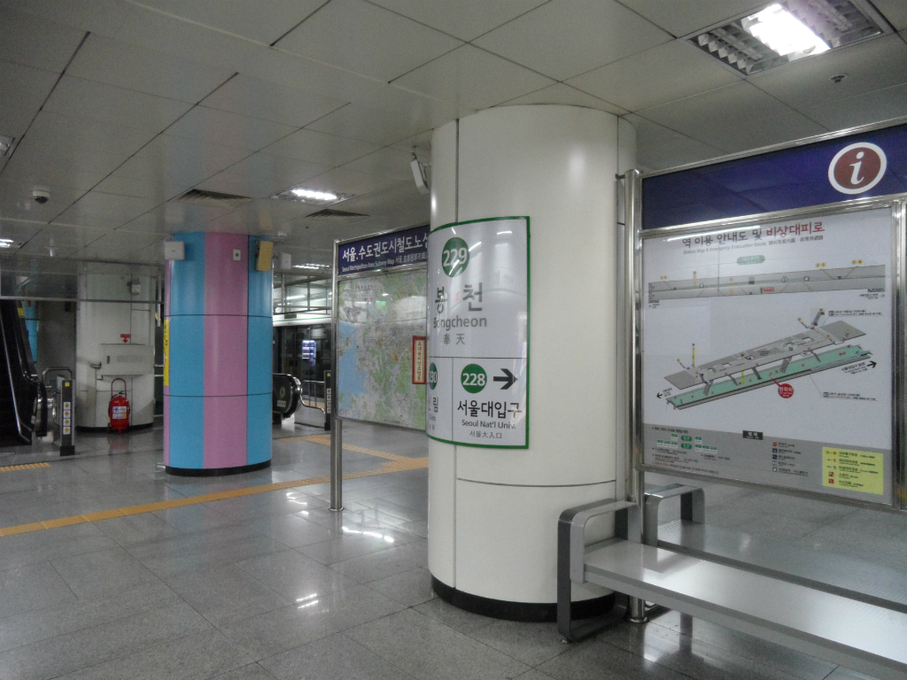 Platform of Bongcheon Station